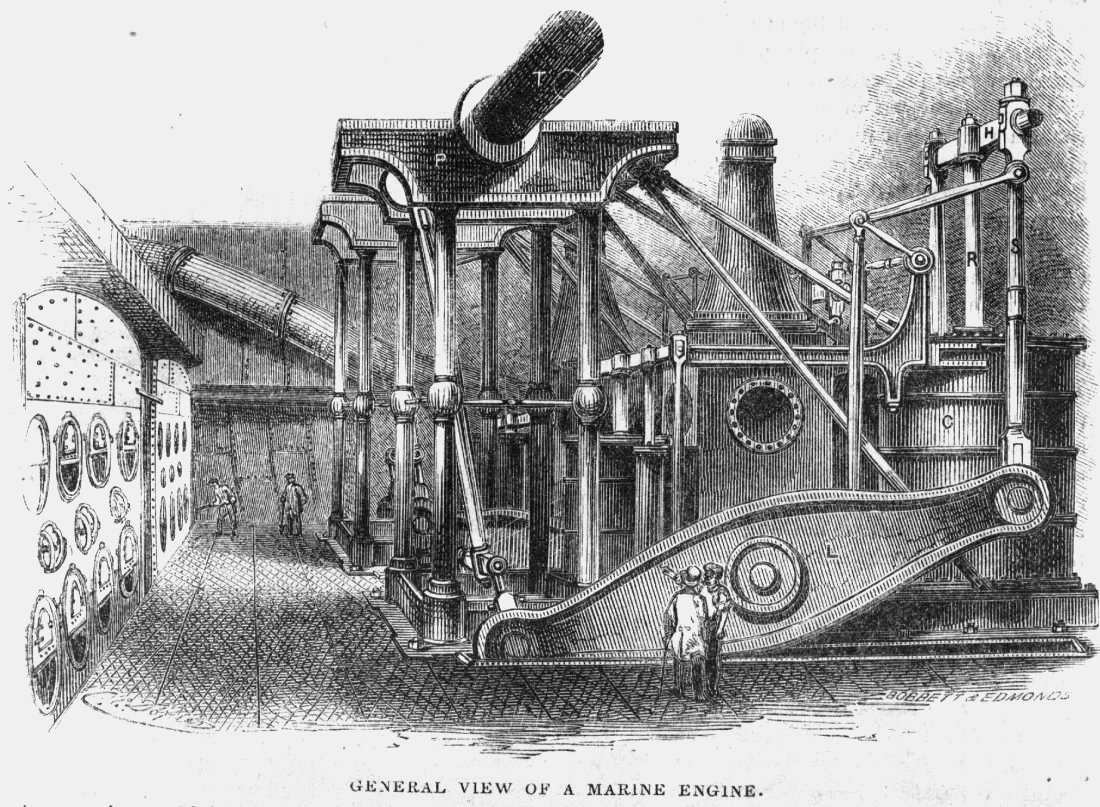 Imaginative image of the engine room of SS Humboldt. At the time this image was created, the engines had been built but the ship was still under construction, so the artist drew the engines as he imagined they would look once installed in the ship.